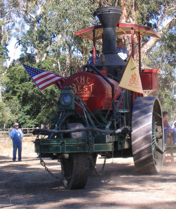 Oakland Museum's Best stream tractor, 2005 Author: Dan Crow